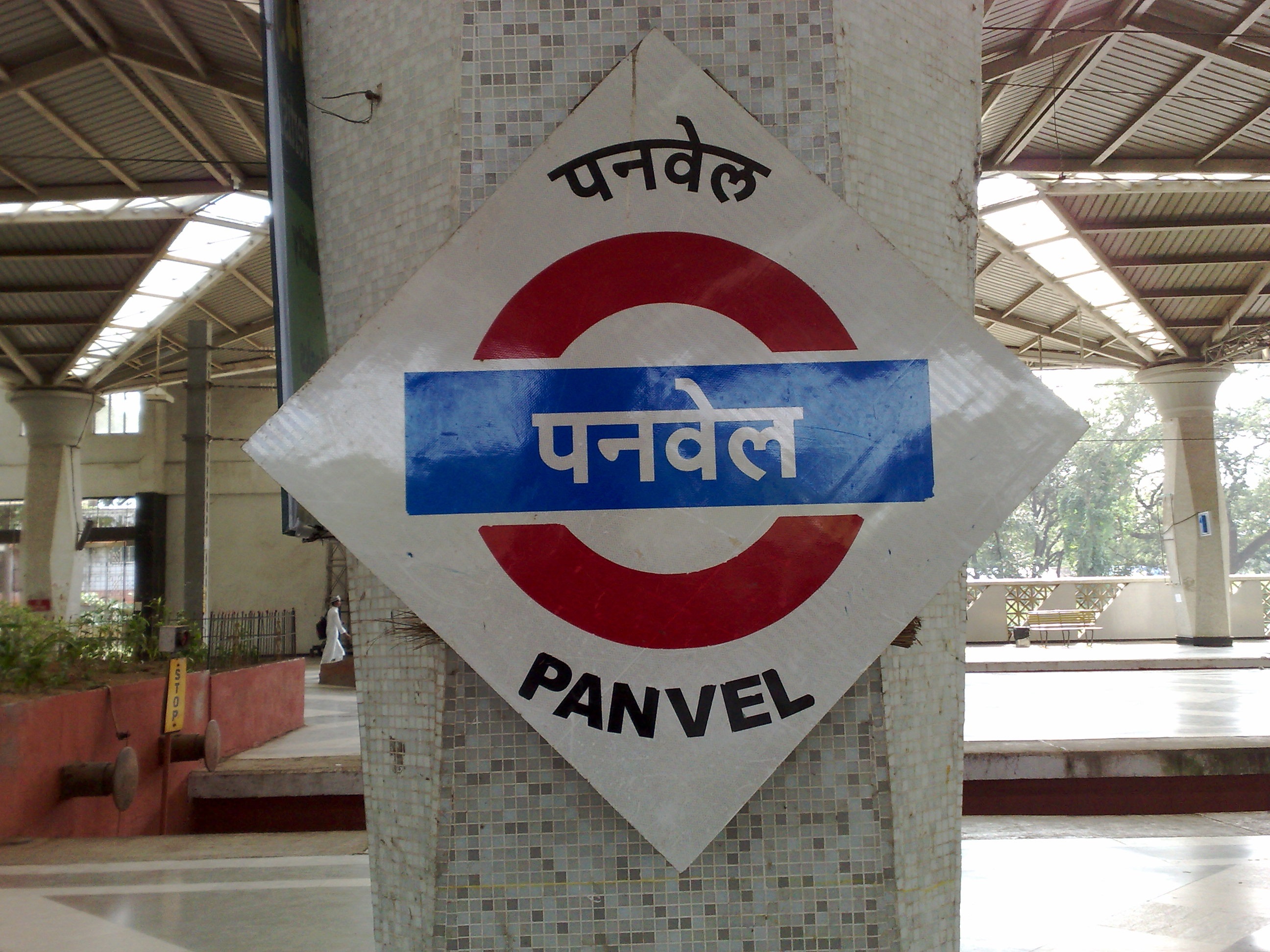 Panvel railway station - Platformboard